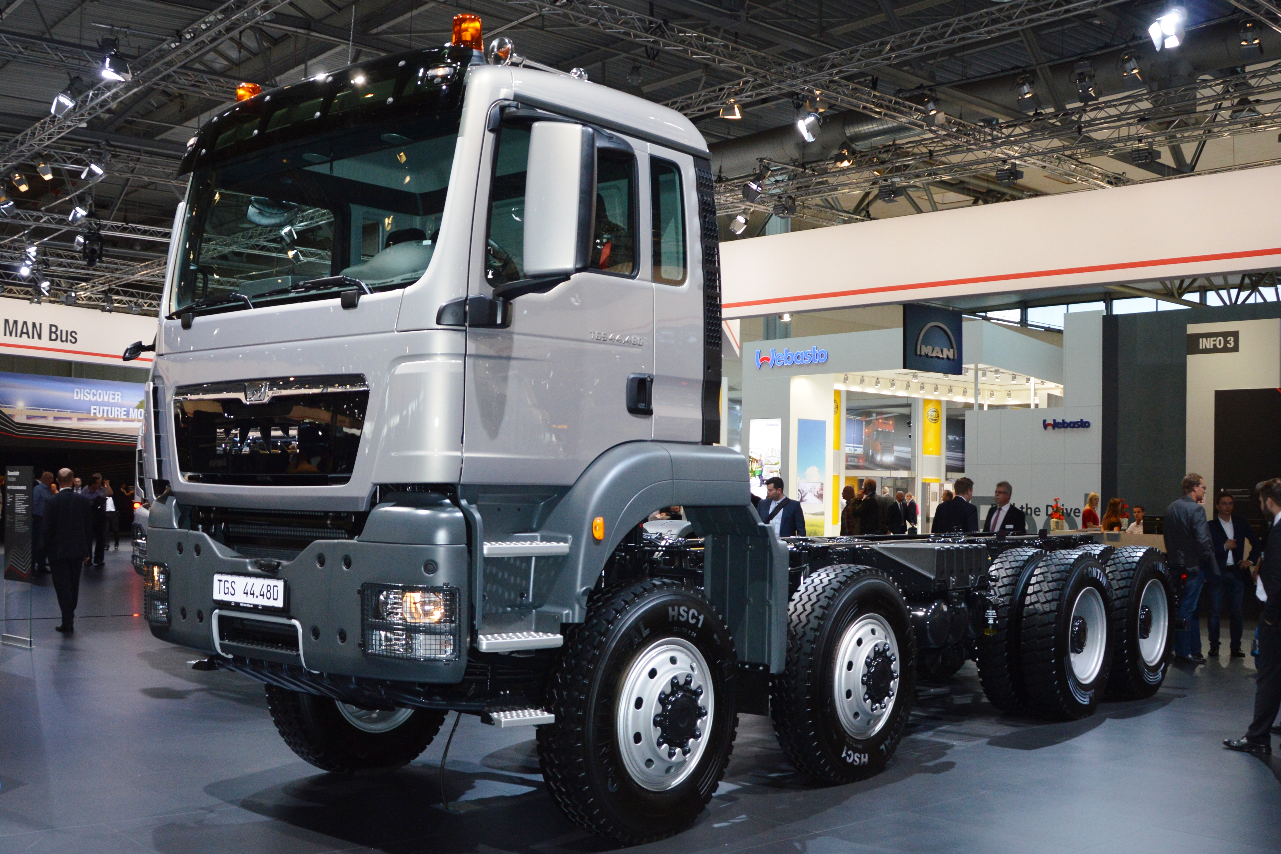 MAN TGS 44.480 8x8 BB. Engine: MAN D2676 Common Rail (Euro 4 SCR). Permissible Gross Weight: 44.000 kg. Permanent all-wheel drive. Photo taken at exhibition IAA 2014 in Hanover, Germany